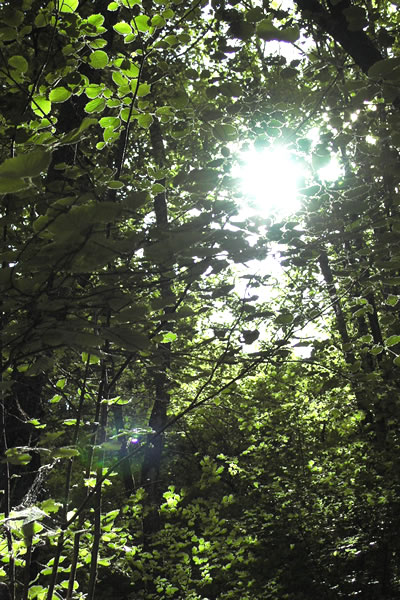 Undergrowth in the French department of Puy-de-Dôme